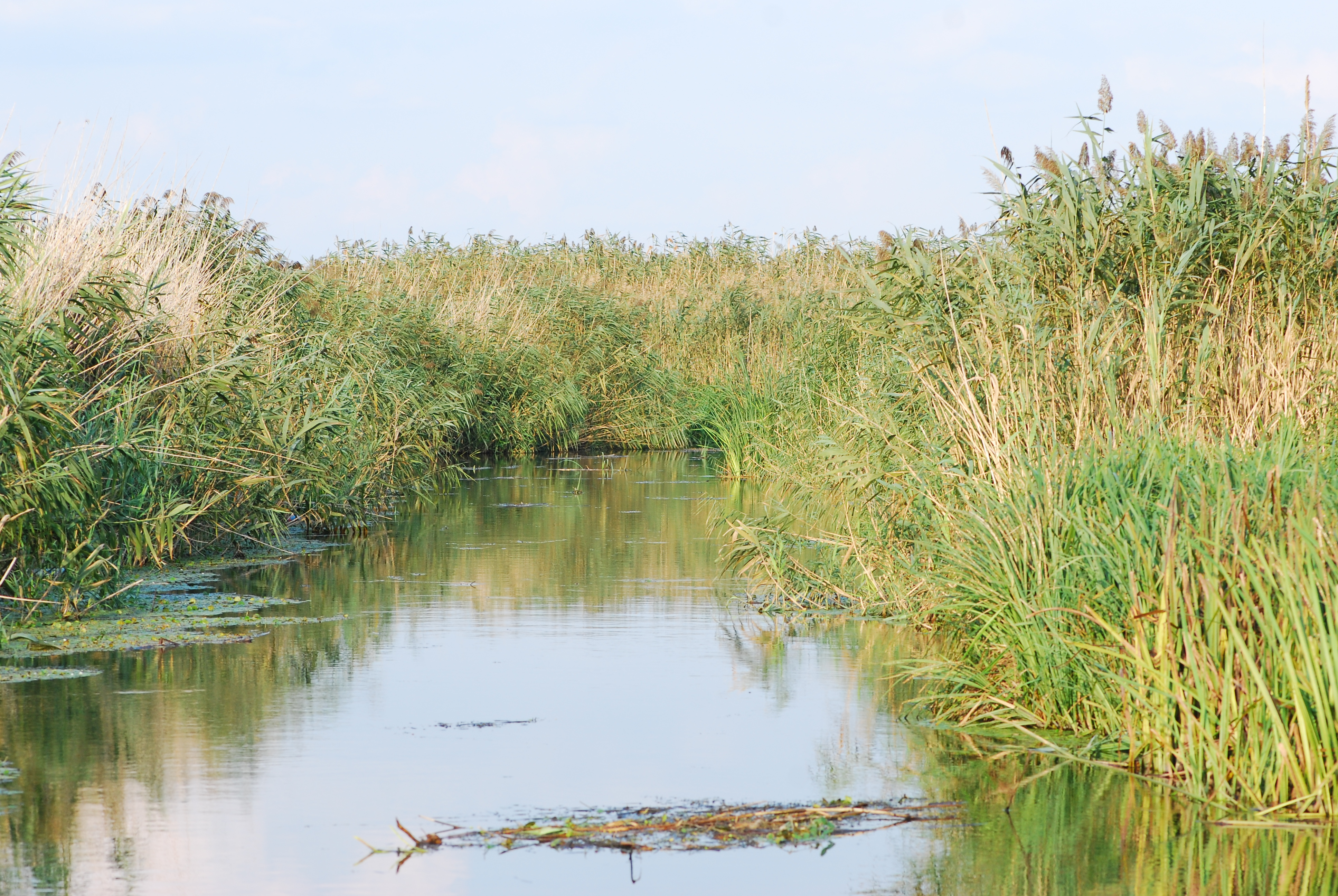 Neajlov River delta near Comana, Giurgiu County, Romania